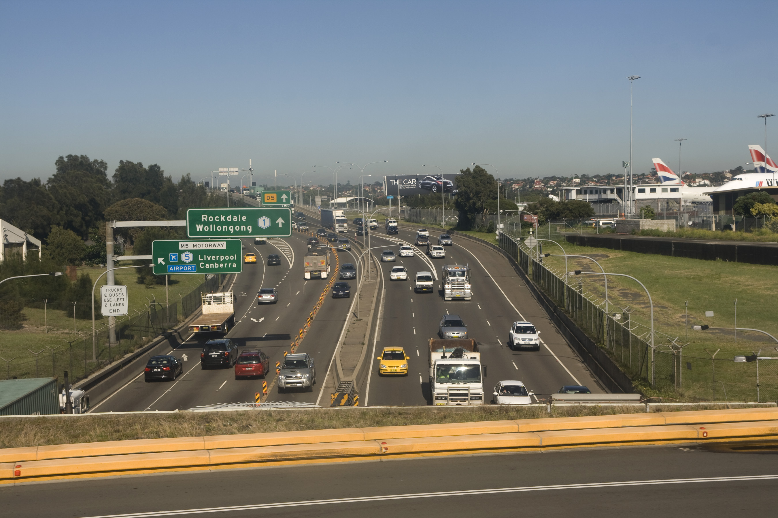 General Holmes Drive from aircraft window